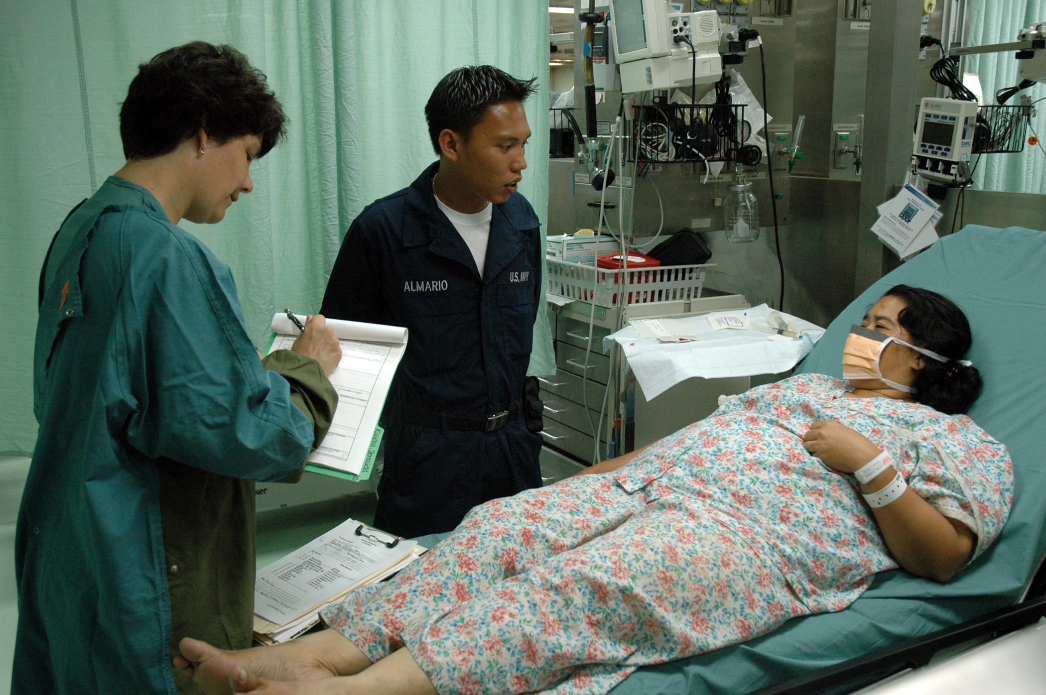 Zamboanga, Republic of the Philippines (May 29, 2006) – Navy Hospital Corpsman Mark Almario translates while Mary Herlihy, an obstetrician/ gynecologist from Project HOPE (Health Opportunities for People Everywhere) records information from a patient prior to receiving medical attention aboard the U.S. Military Sealift Command (MSC) hospital ship USNS Mercy (T-AH 19) while anchored off the coast on a scheduled humanitarian visit. Project HOPE’s mission is to achieve sustainable advances in health care around the world by implementing health education programs, conducting health policy research, and providing humanitarian assistance in areas of need. Mercy is on a five-month deployment during which it will visit areas of South Asia, Southeast Asia, and the Pacific Islands where its crew and several health and civic related organizations will work together to aid in humanitarian and civic efforts. Like all US Naval forces, Mercy is able to rapidly respond to a range of situations on short notice. Mercy is uniquely capable of supporting medical and humanitarian assistance needs and has been configured with special medical equipment and a robust multi-specialized medical team to provide a range of services ashore as well as on board the ship. The medical staff is augmented with assistance crews, many of whom are part of non-governmental organizations and have significant medical capabilities. U.S. Navy photo by Photographer’s Mate 1st Class Michael R. McCormick. (RELEASED)